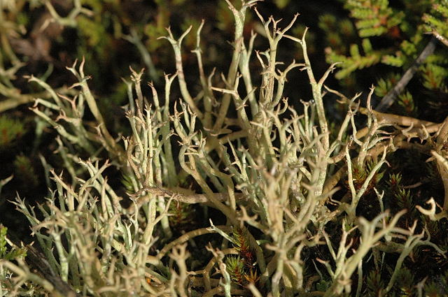 Picture taken in Commanster, Belgian High Ardennes . Species: Cladonia furcata